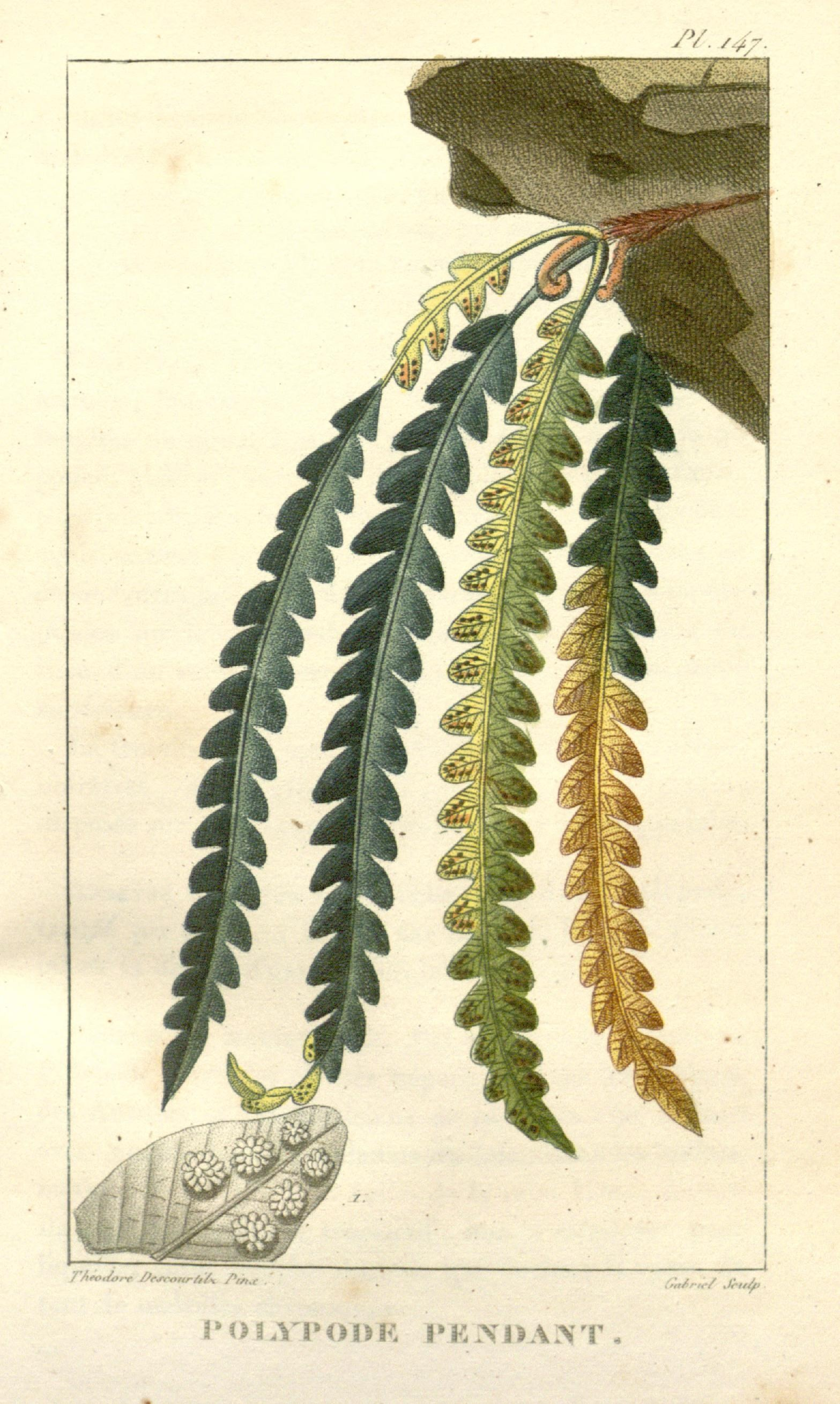 /V. U/- /'At^u/of^ /Ji' ^irA^ / f/t^t / / Ji-t///» P0 5.1, iM.l.R rE.XlïAJNT .